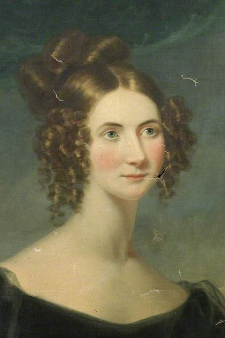 Caroline de Crespigny nee Bathurst, English poetess